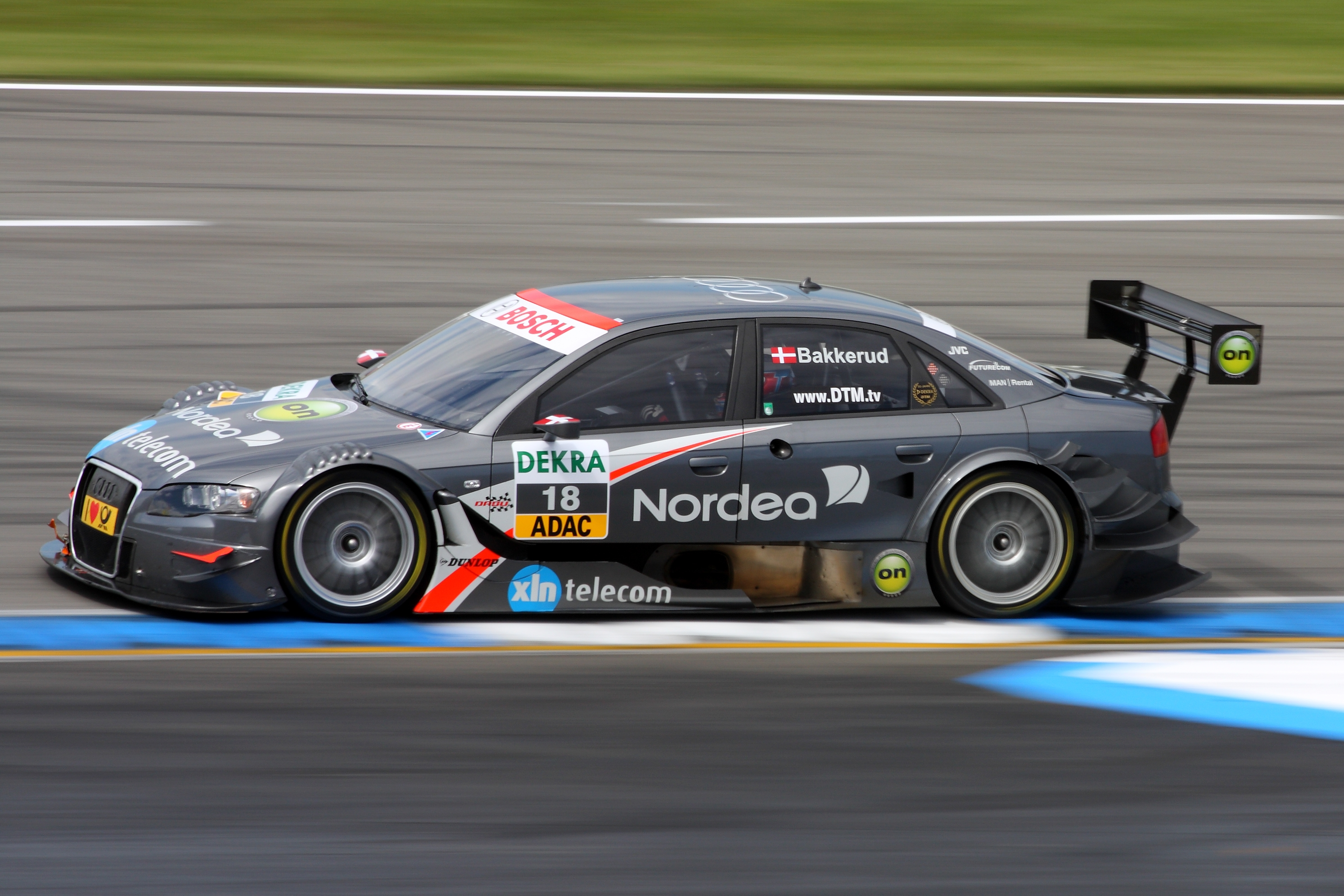 DTM Audi A4, Christian Bakkerud (driver)